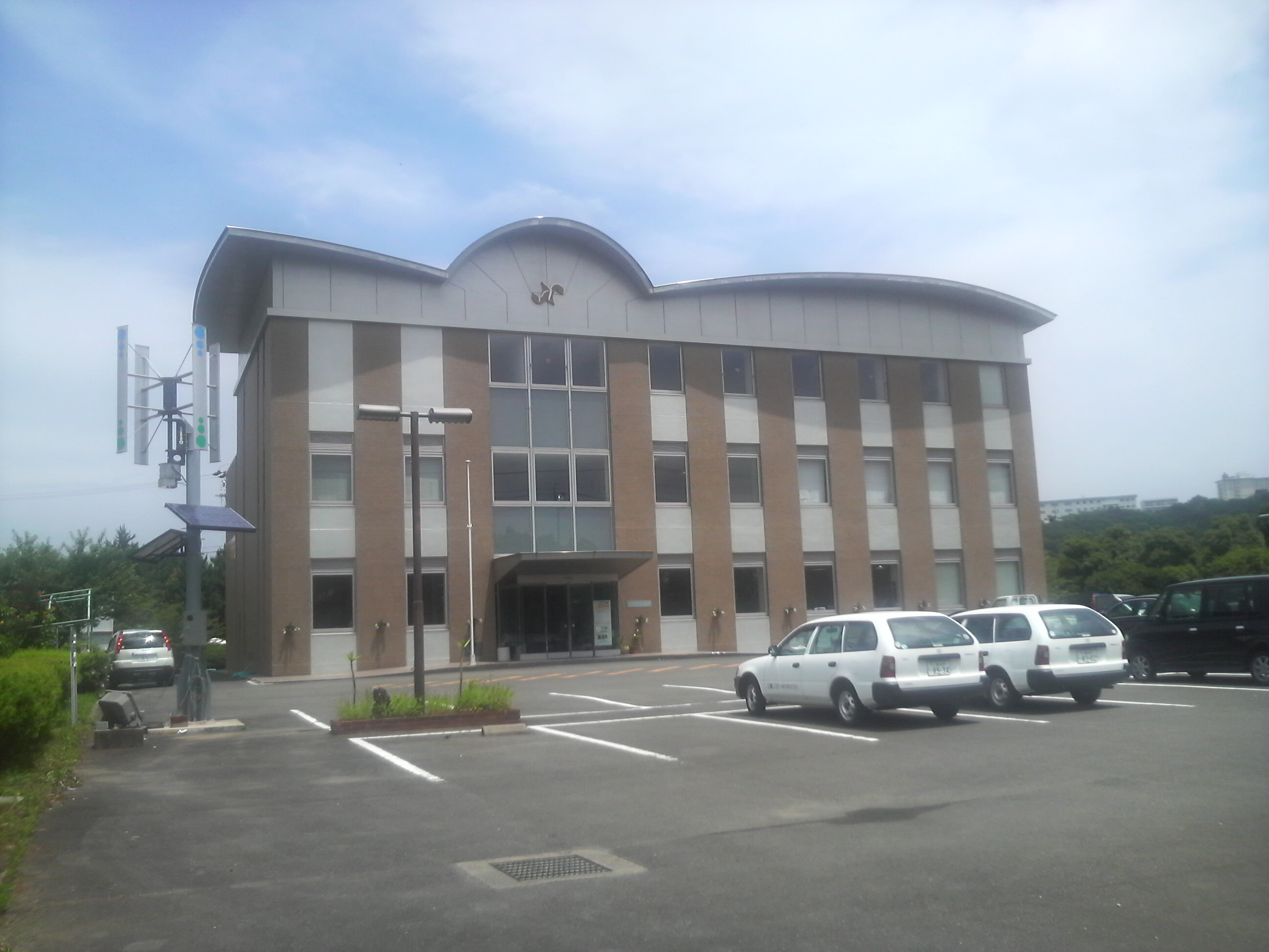 Building of Toba Chamber of Commerce and Industry in Toba city, Mie prefecture, Japan.